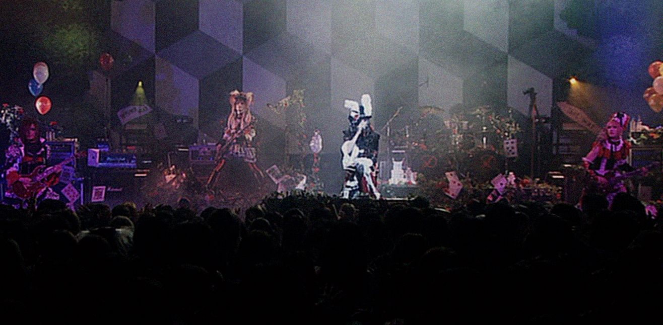 D (Visual kei)